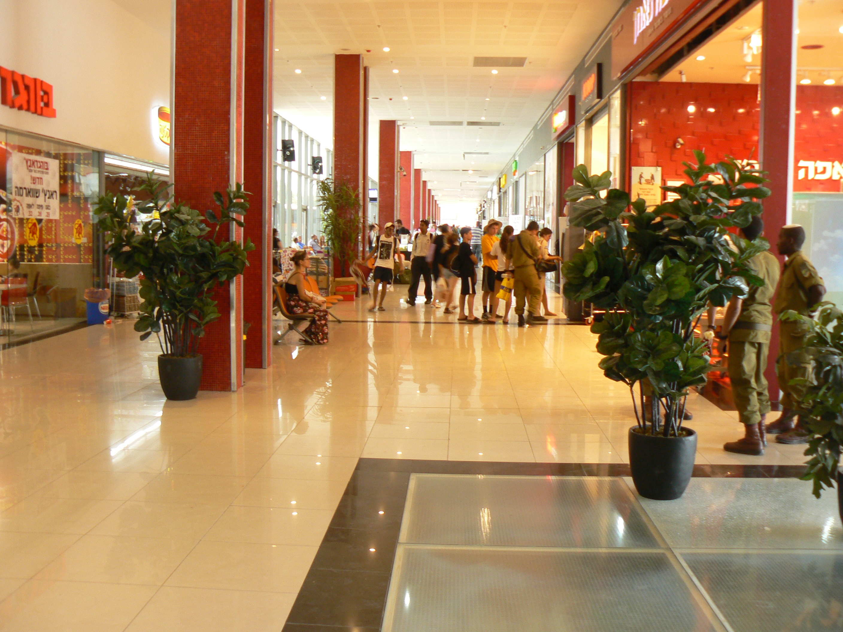 Be'er Sheva centreal bus station